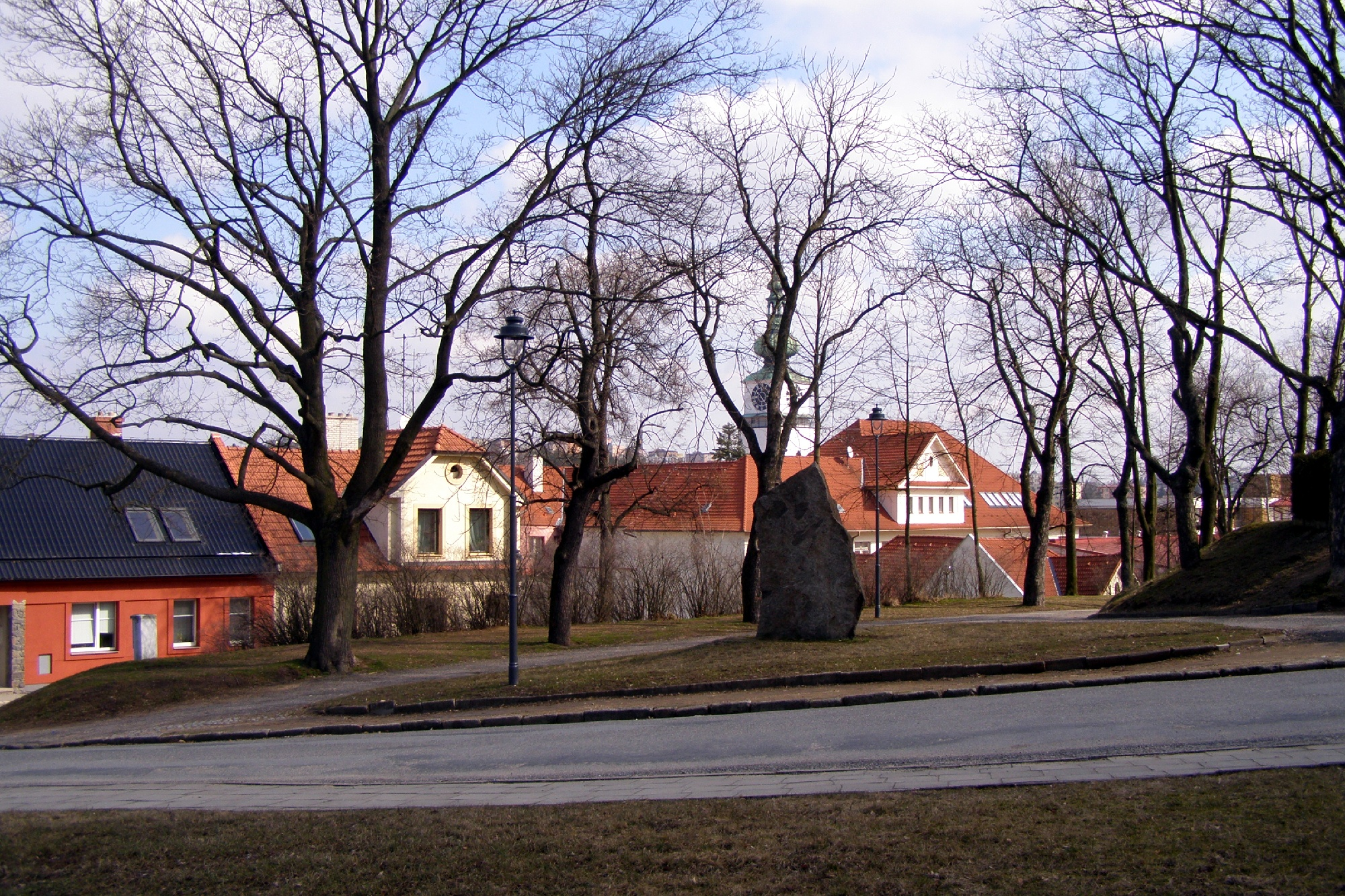 Třebíč-Horka-Domky. Tyrš' gardens